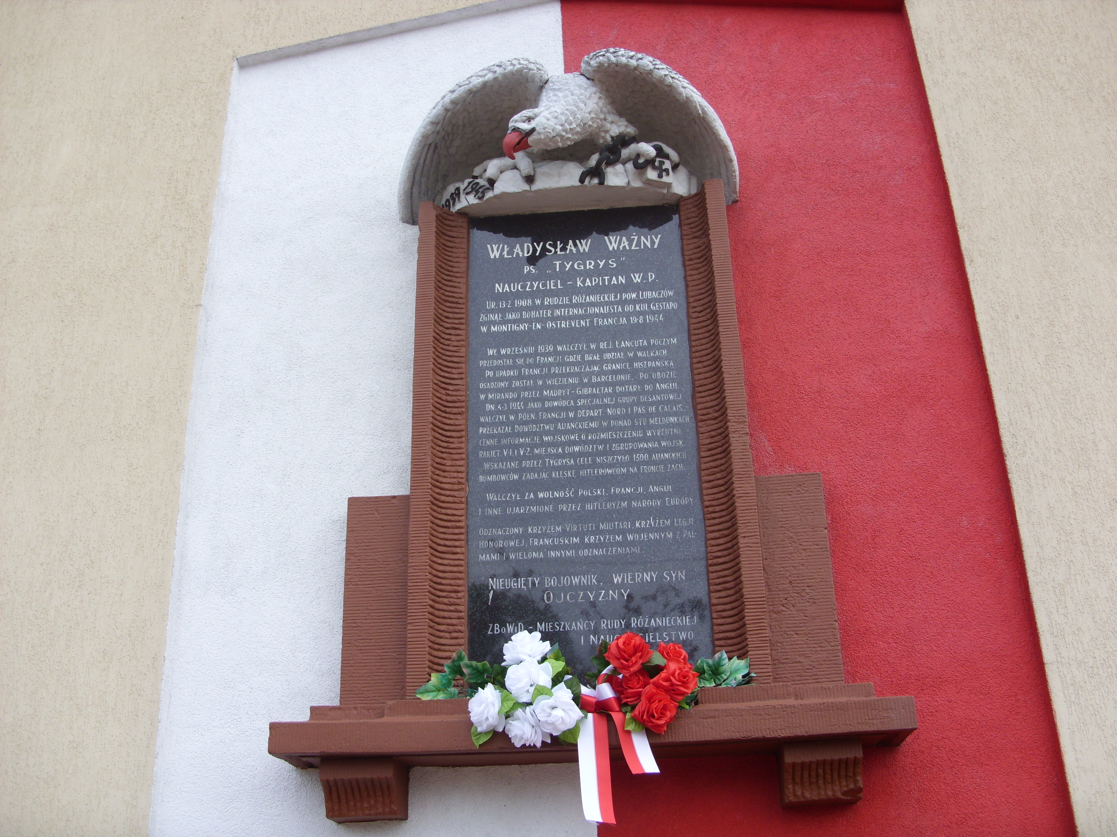 Władysław Ważny "Tiger", teacher, soldier of the Polish Army and British intelligence, patron of the school in Ruda Różaniecka.